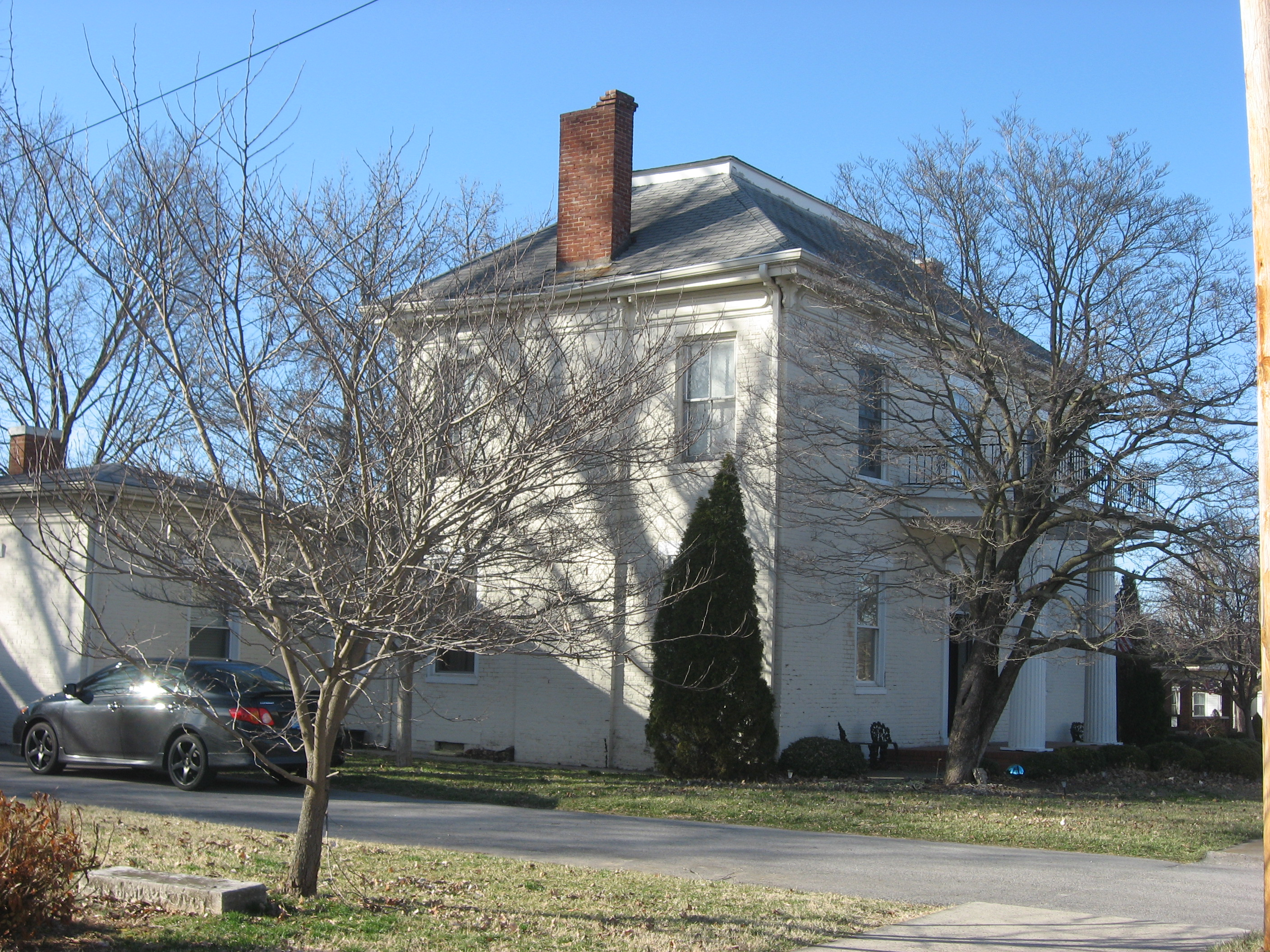 Front and southern side of the McReynolds House, located on the western side of S. Main Street in Elkton, Kentucky, United States. Built in 1860 and the birthplace of James Clark McReynolds, it is listed on the National Register of Historic Places.